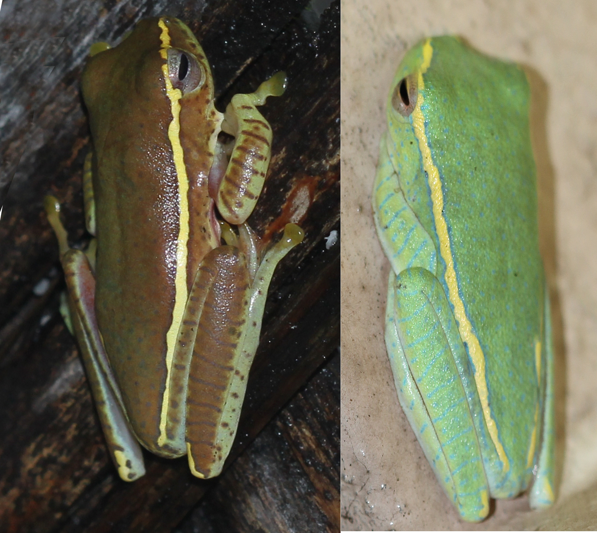 Green and brown forms of Rhacophorus lateralis